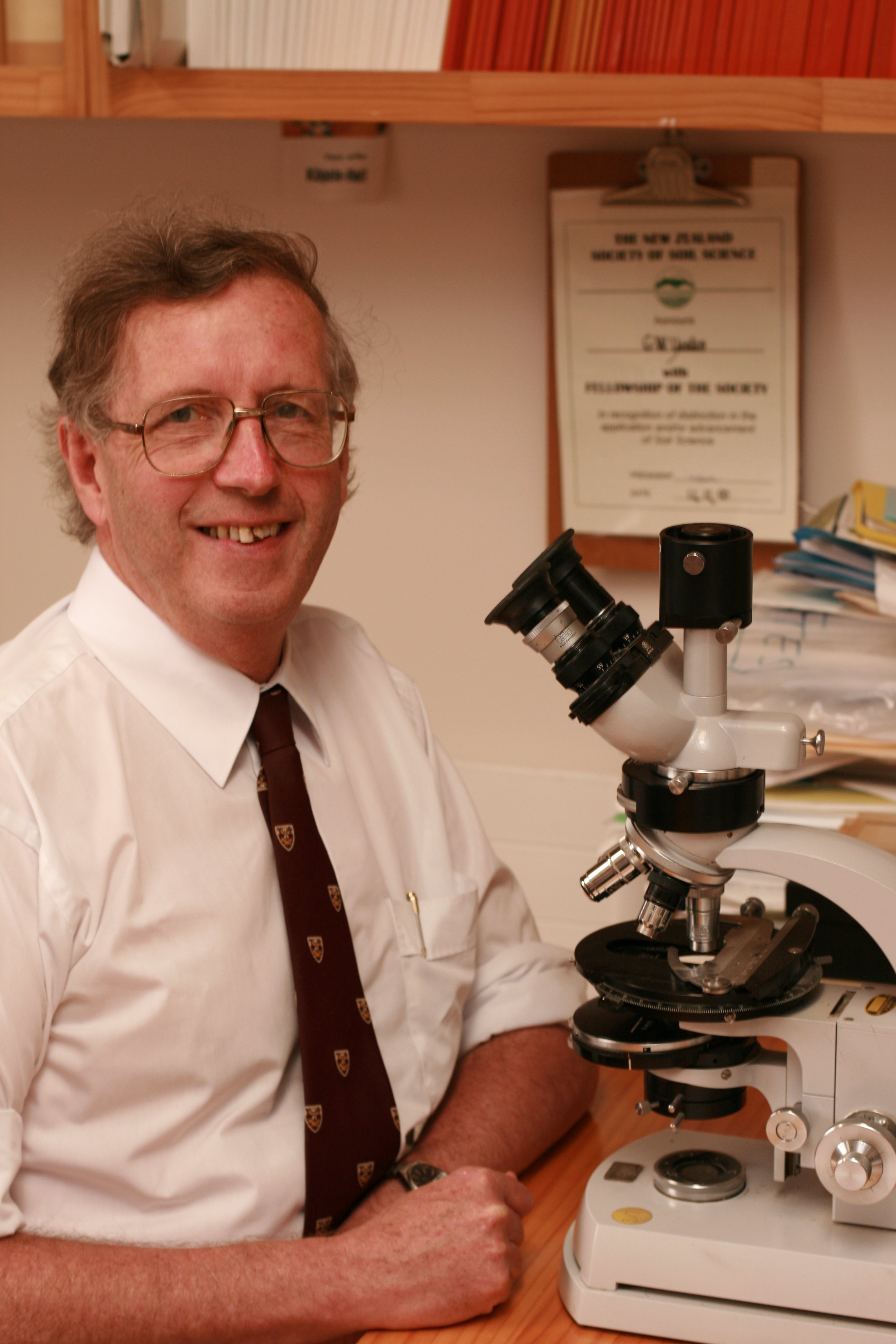 Portrait of Gregor W. Yeates sitting at a Zeiss microscope. Yeates is wearing a white shirt, a University of Canterbury tie and corrective glasses. In the background is a certificate from the New Zealand Society of Soil Science commerating his fellowship of the Society. Taken on the Massey University's Turitea campus.